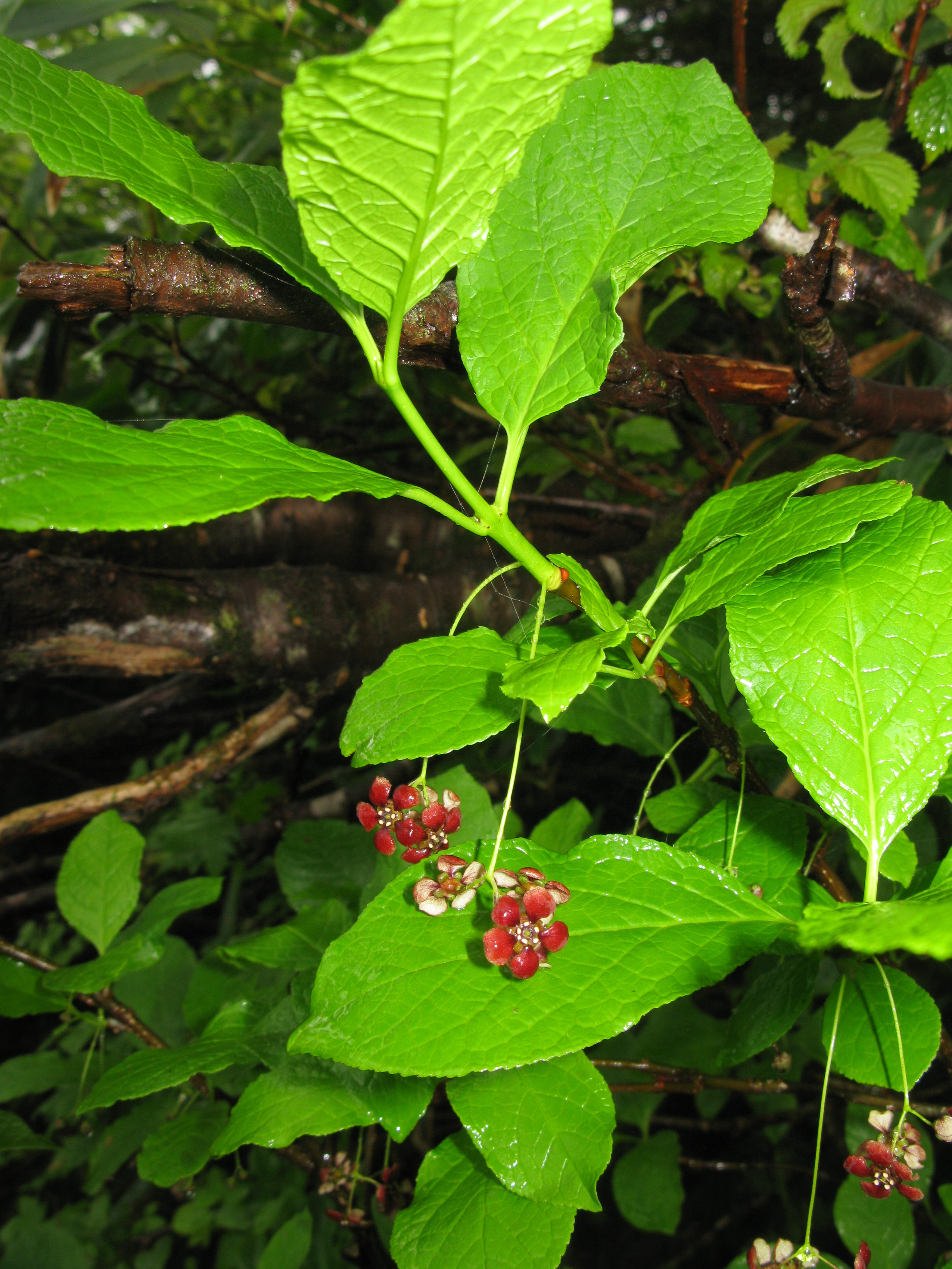 Euonymus tricarpus, Mount Nishi-azuma, Fukushima pref., Japan